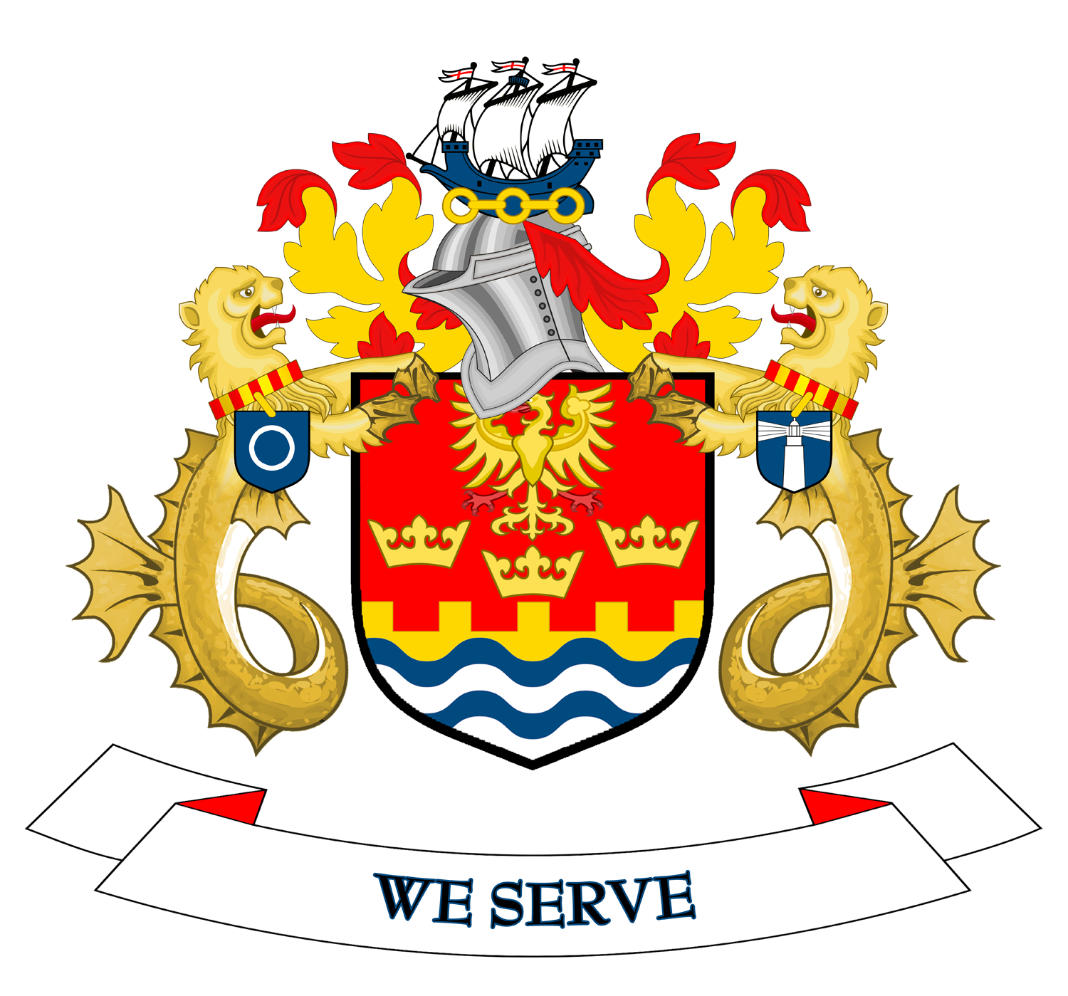 The Coat of arms of North Tyneside Metropolitan Borough Council, the local government authority for the Metropolitan Borough of North Tyneside, in Tyne and Wear, England.